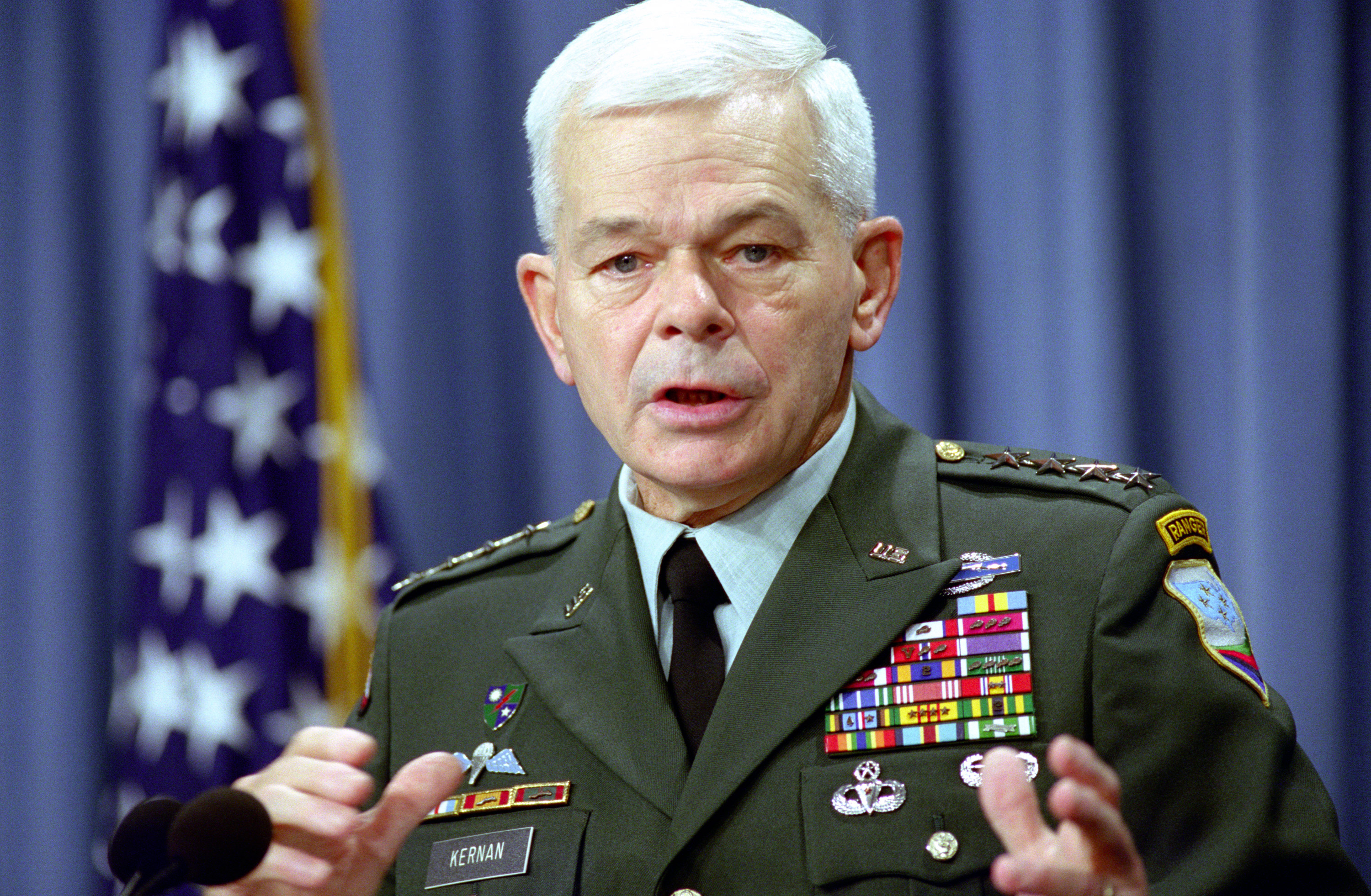 General William F. Kernan, USA, commander U.S. Joint Forces Command (2000-2002)